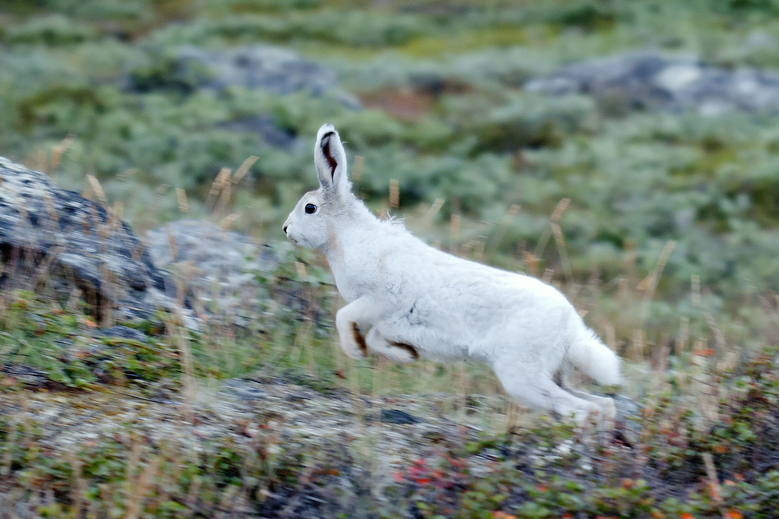 “An Arctic Hare sprinting across the difficult terrain of the Greenland tundra. The photos was taken at then end of summer and this individual has started growing its white winter coat. Southwest Greenland.”